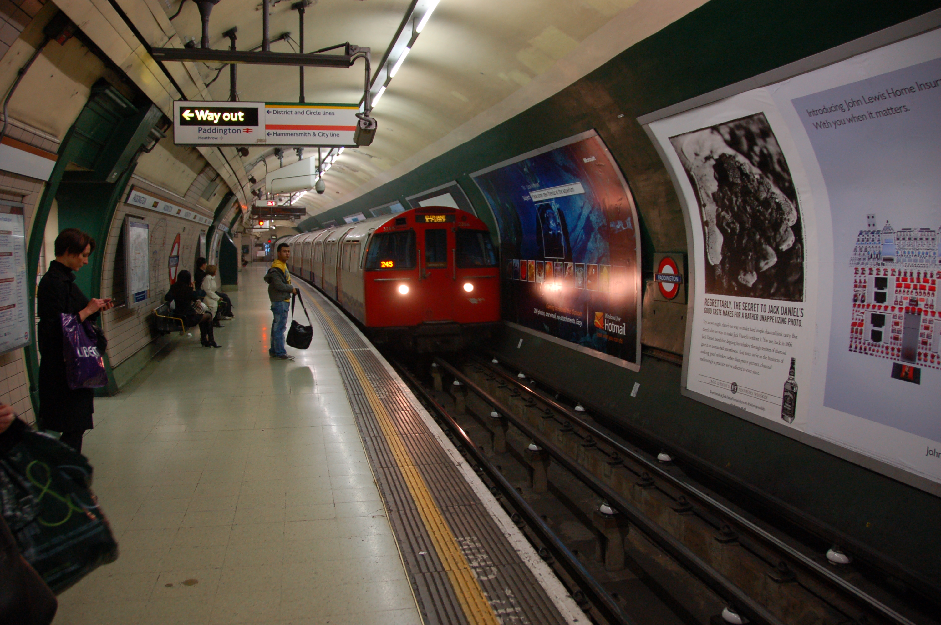 Paddington tube station, platforms of Bakerloo line, London, UK